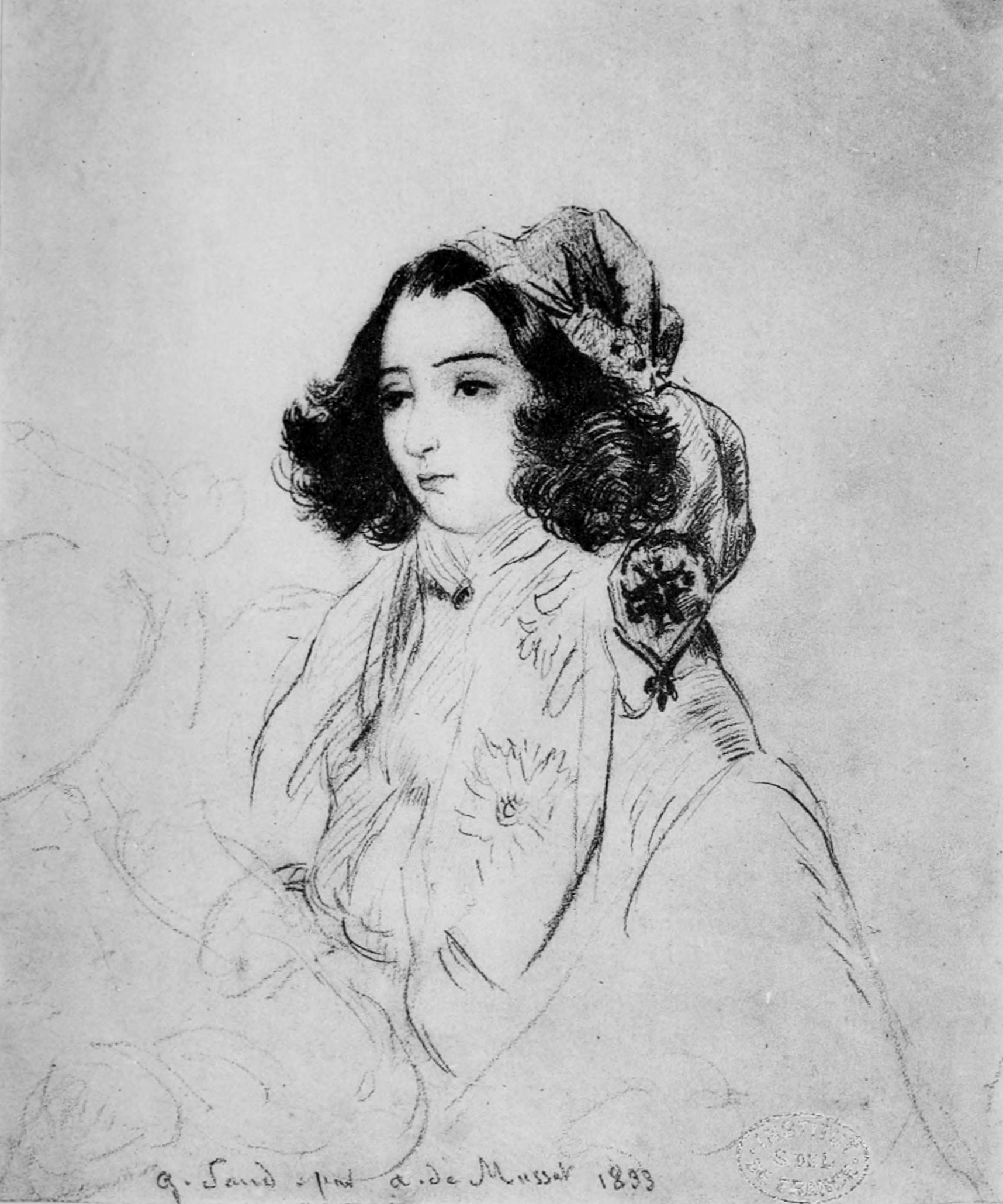 Drawing of George Sand by Alfred De Musset